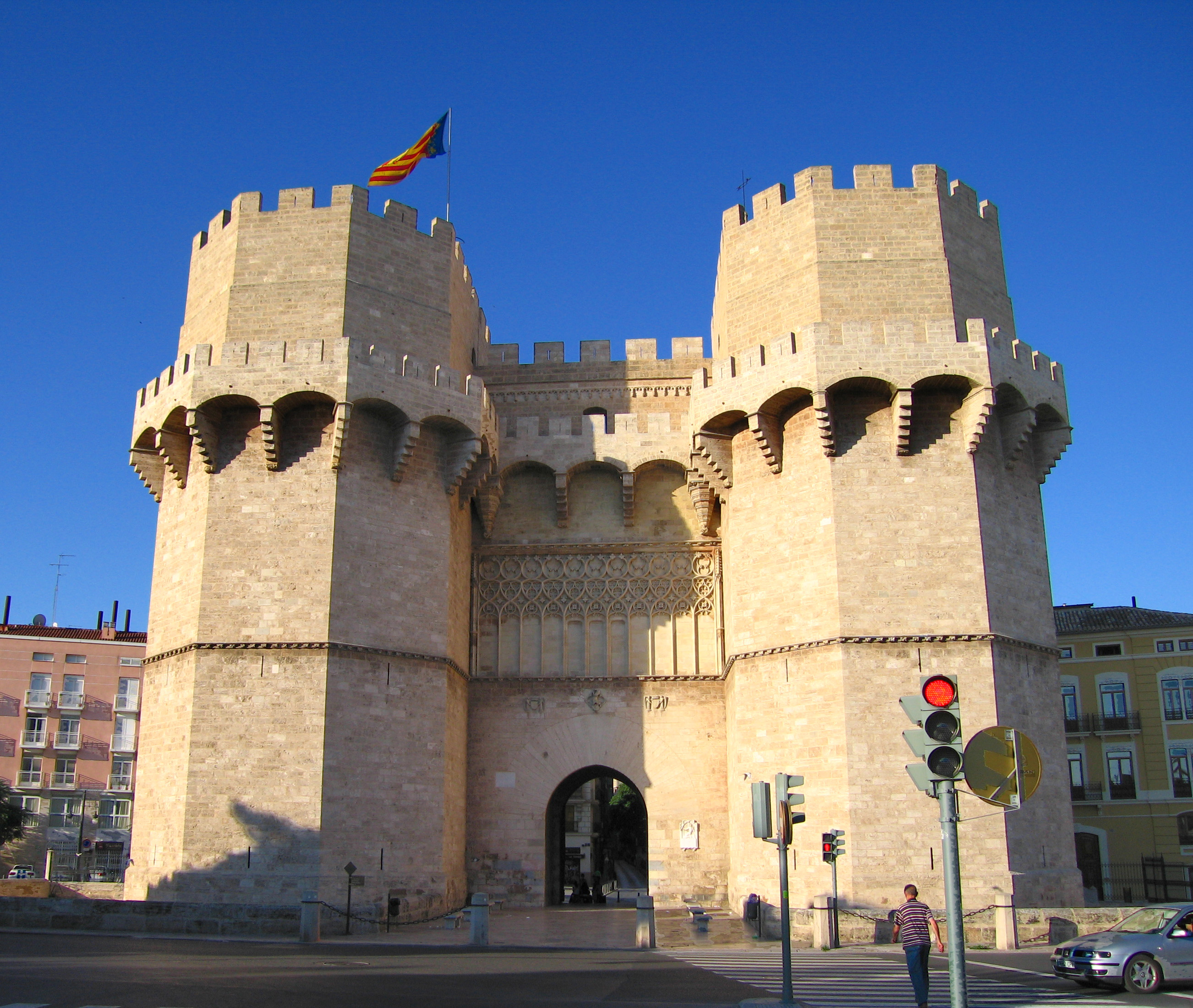 Torres de Serrans (València)